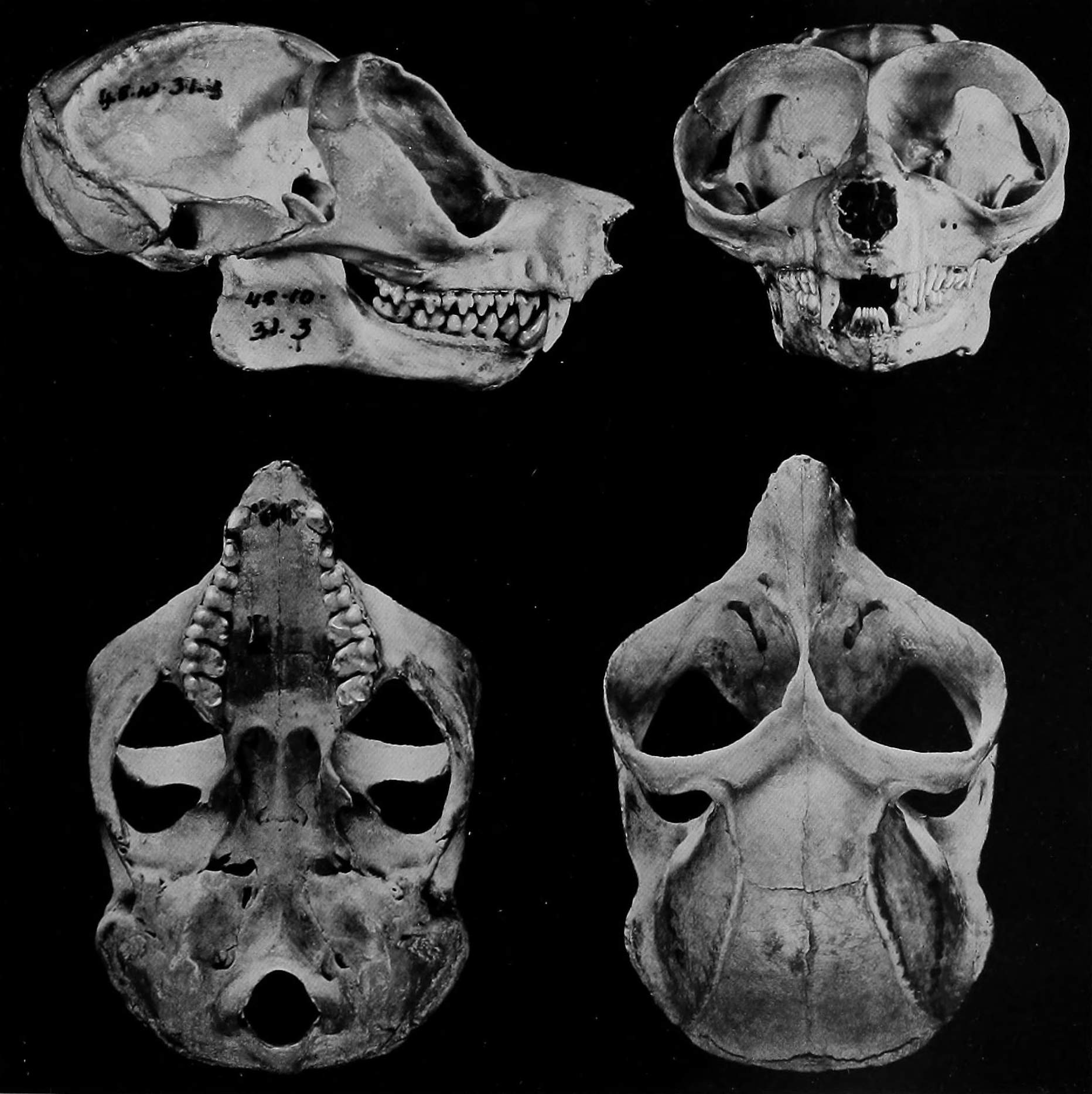 Skull of Loris tardigradus. Specimen 48.10.31.3 British Museum